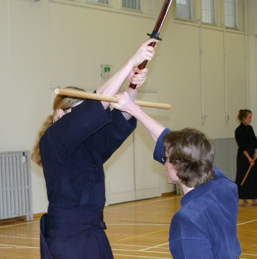 Uchida-ryū tanjōjutsu_technique